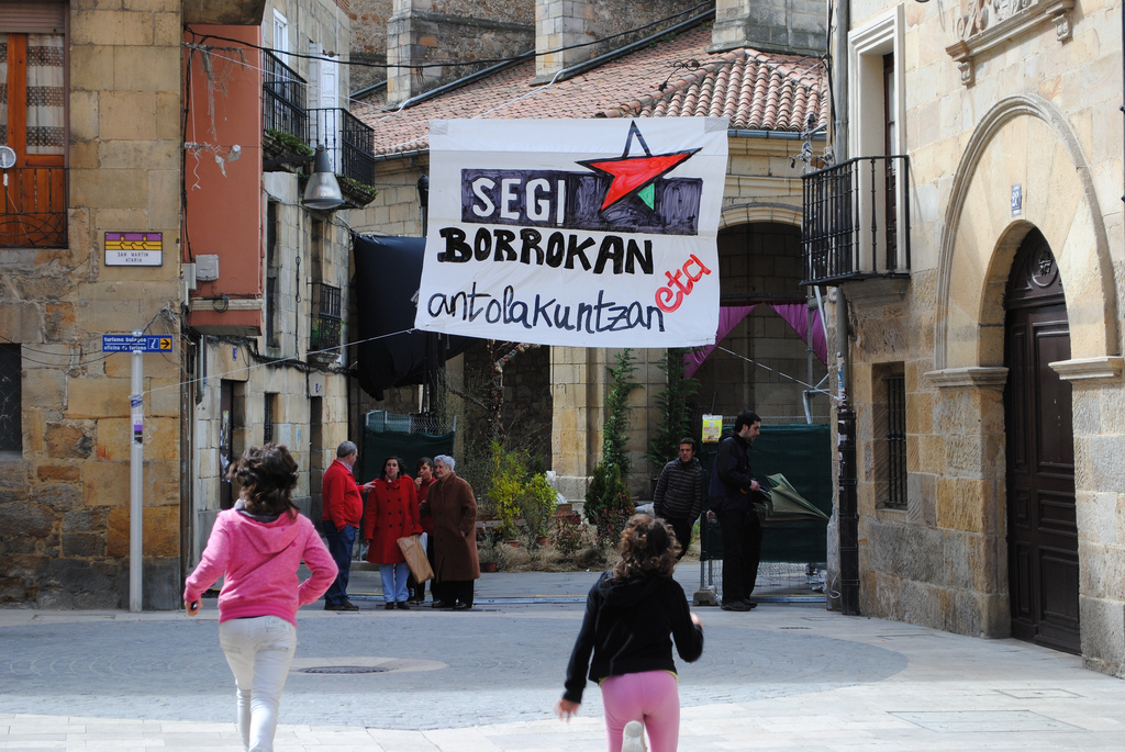 A banner depicting the logo of Basque youth organization Segi (2010).